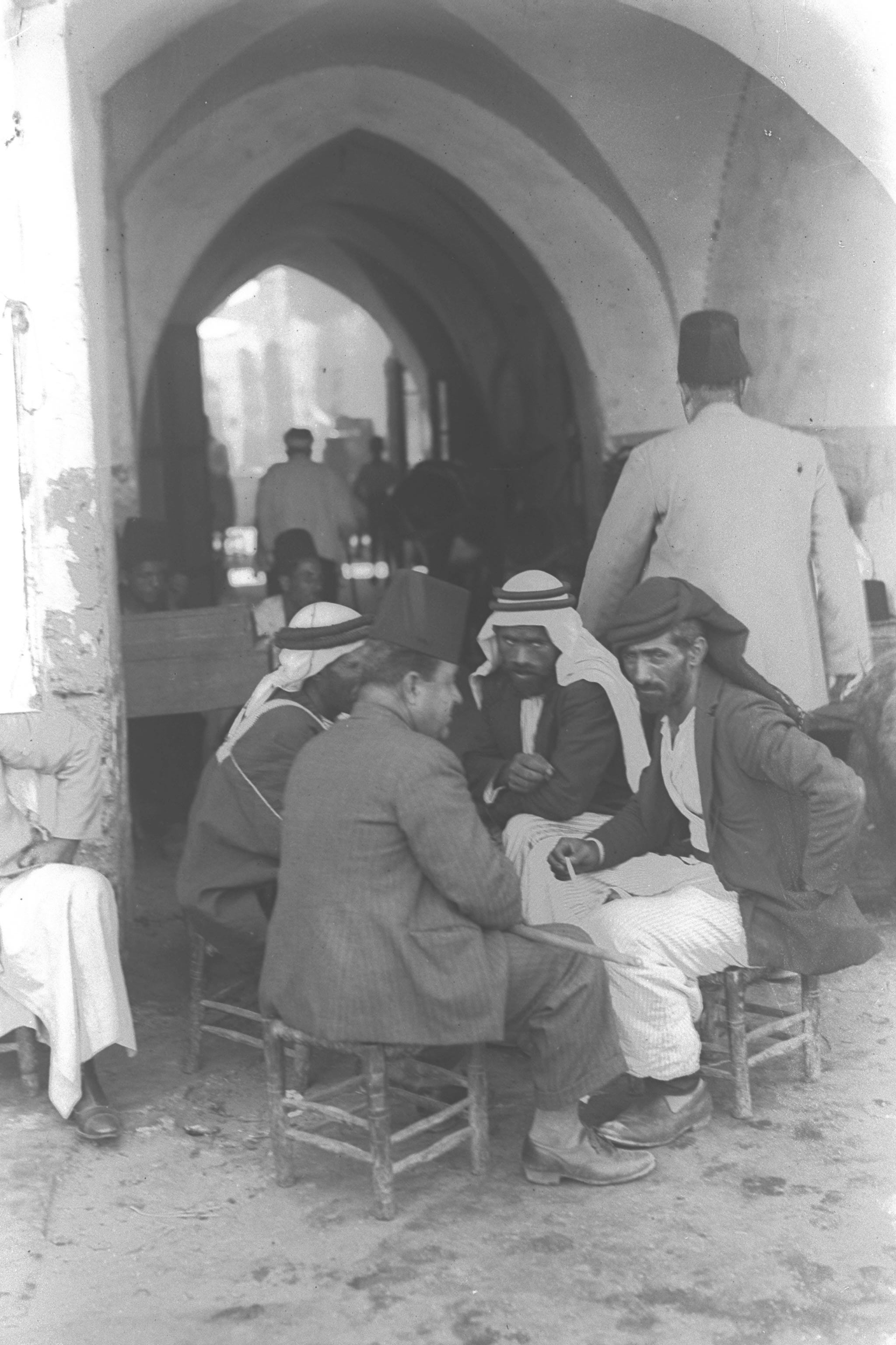 AN ARAB COFFEE HOUSE IN JERUSALEM. ערבים יושבים בבית קפה בעיר העתיקה בירושלים.